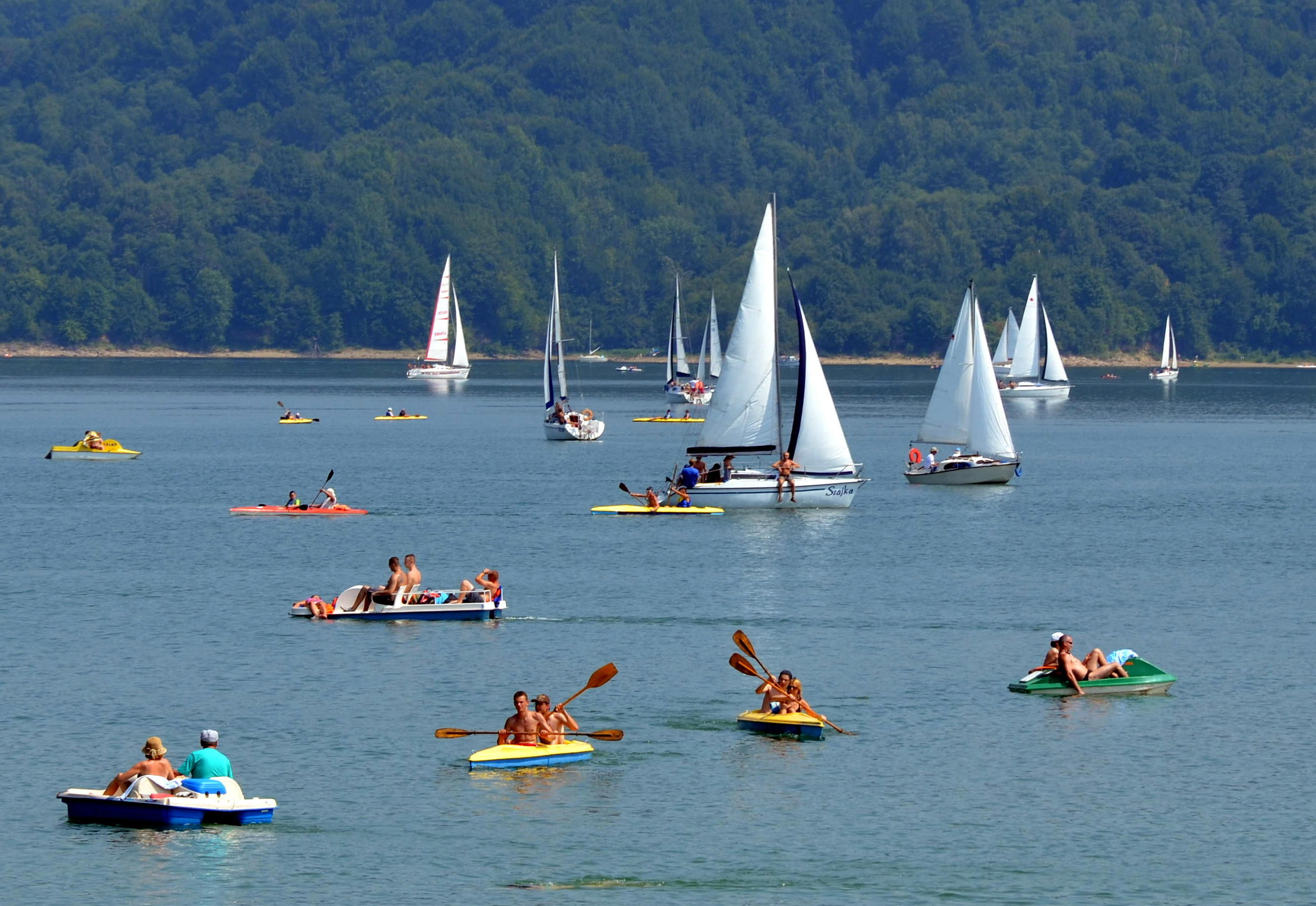 Lake Solina